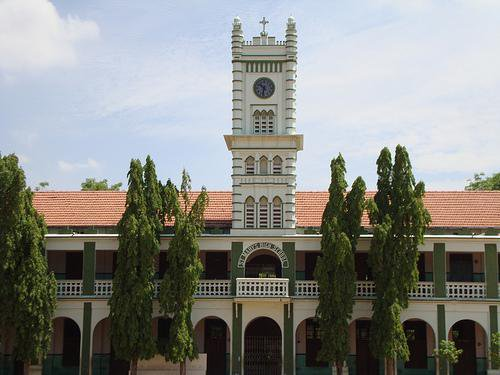 Clock house in Stmarys dindigul